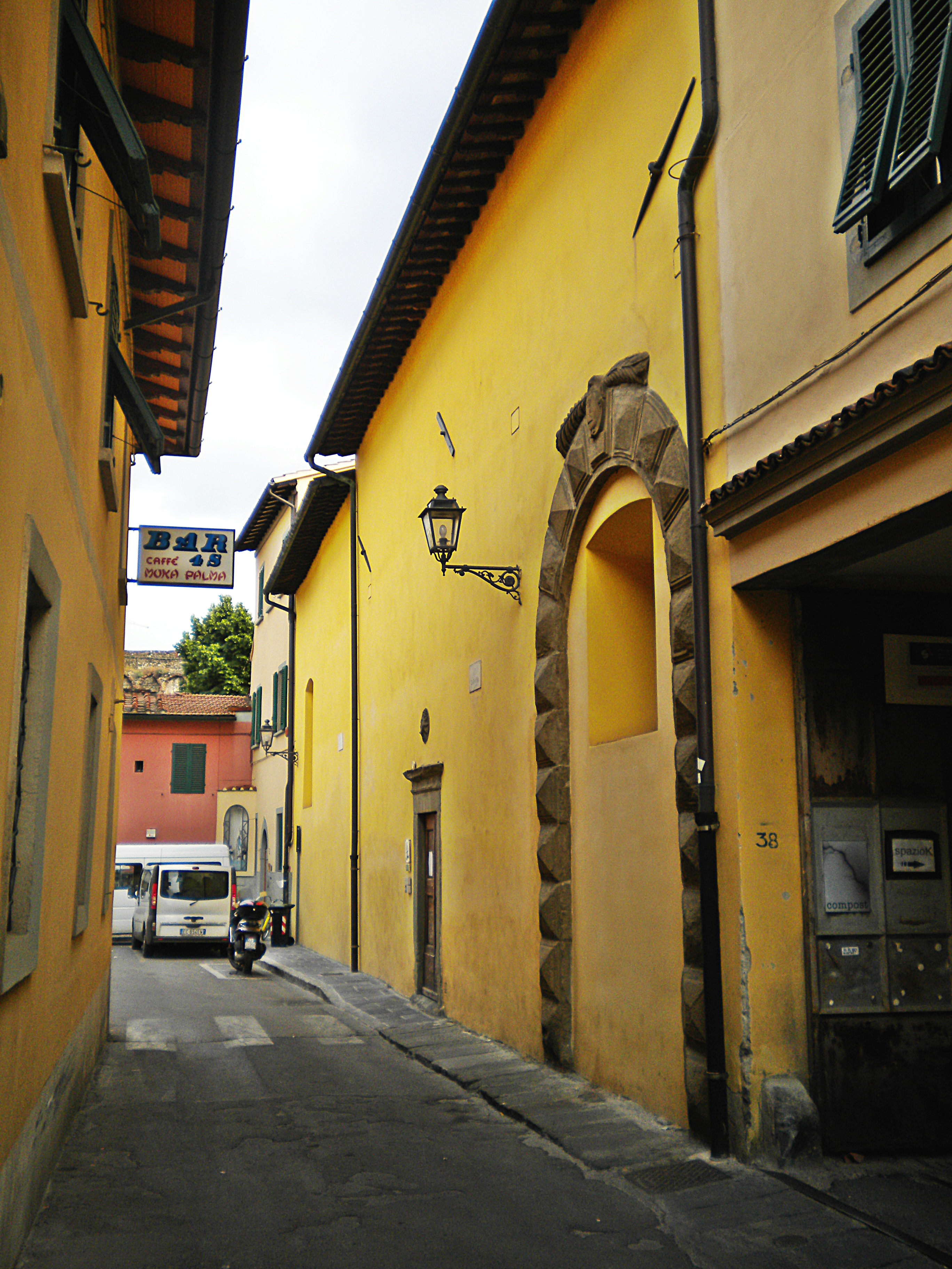 facade